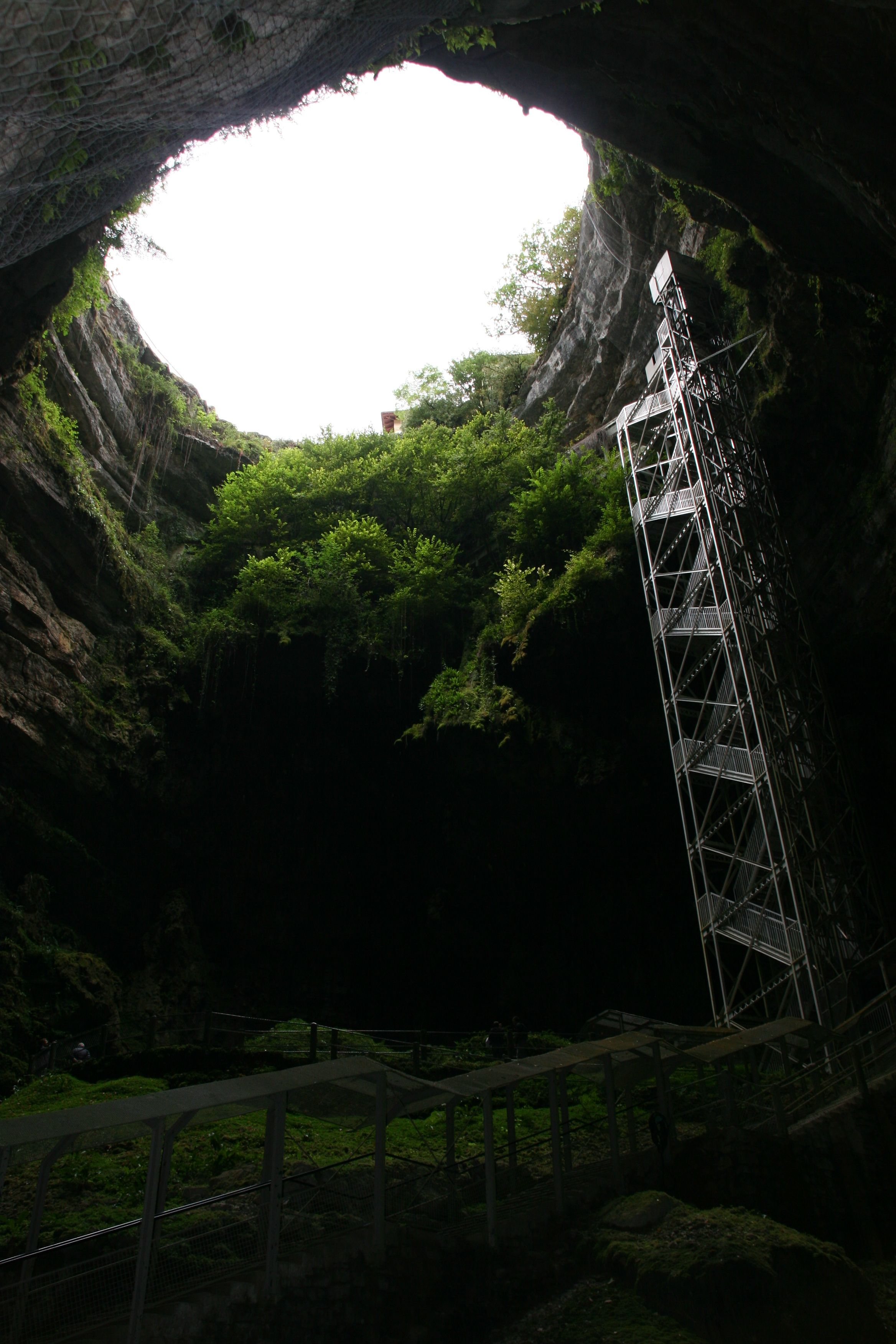 Gouffre de Padirac: Chasm, stairway and elevator.